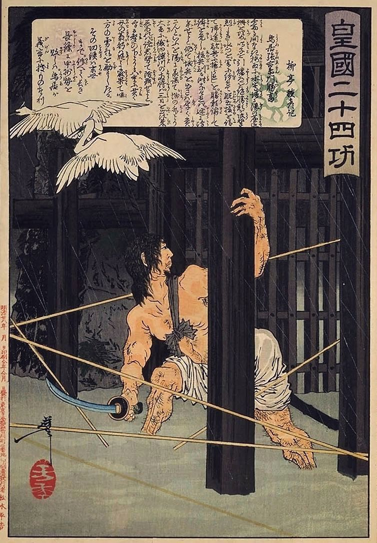 An ukiyo-e of Torii Suneemon who escapes from Nagashino Castle.